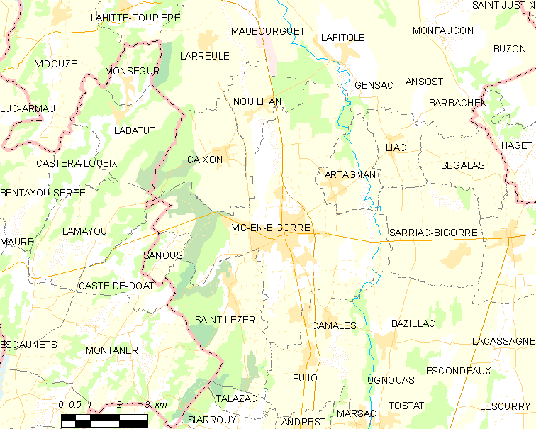 Map of French municipality